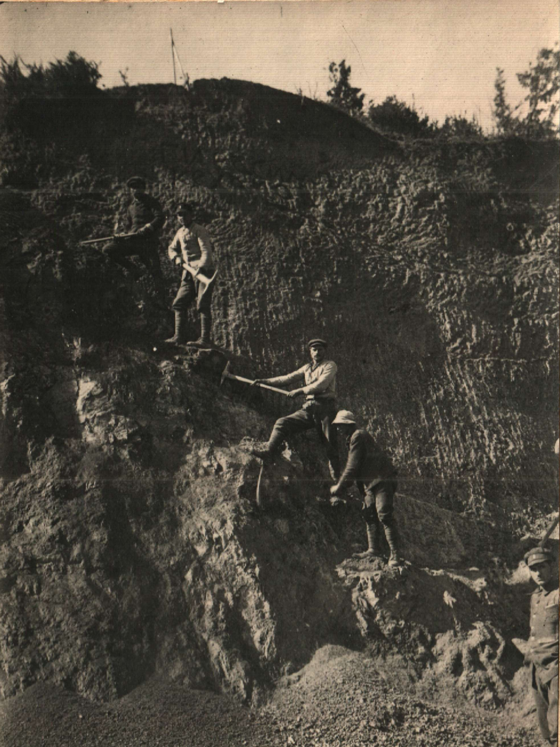 Septemvri-Dobrinishte narrow gauge line building, Bulgaria, Pashovo station, 1927.